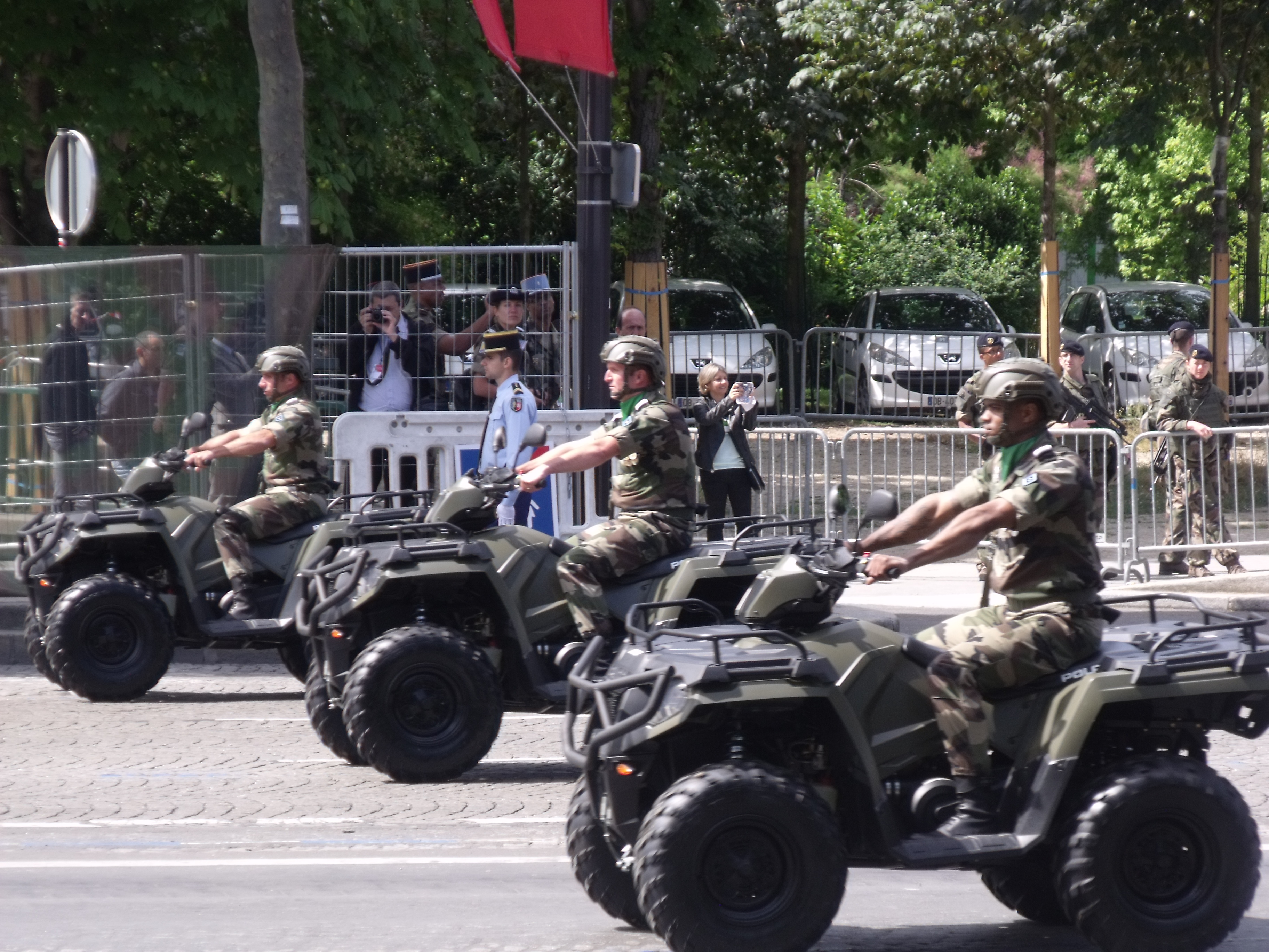 Polaris Quads used by the French Army and Special Forces. Seen here during the parade of 14 July 2016 on the Champs-Élysées in Paris.